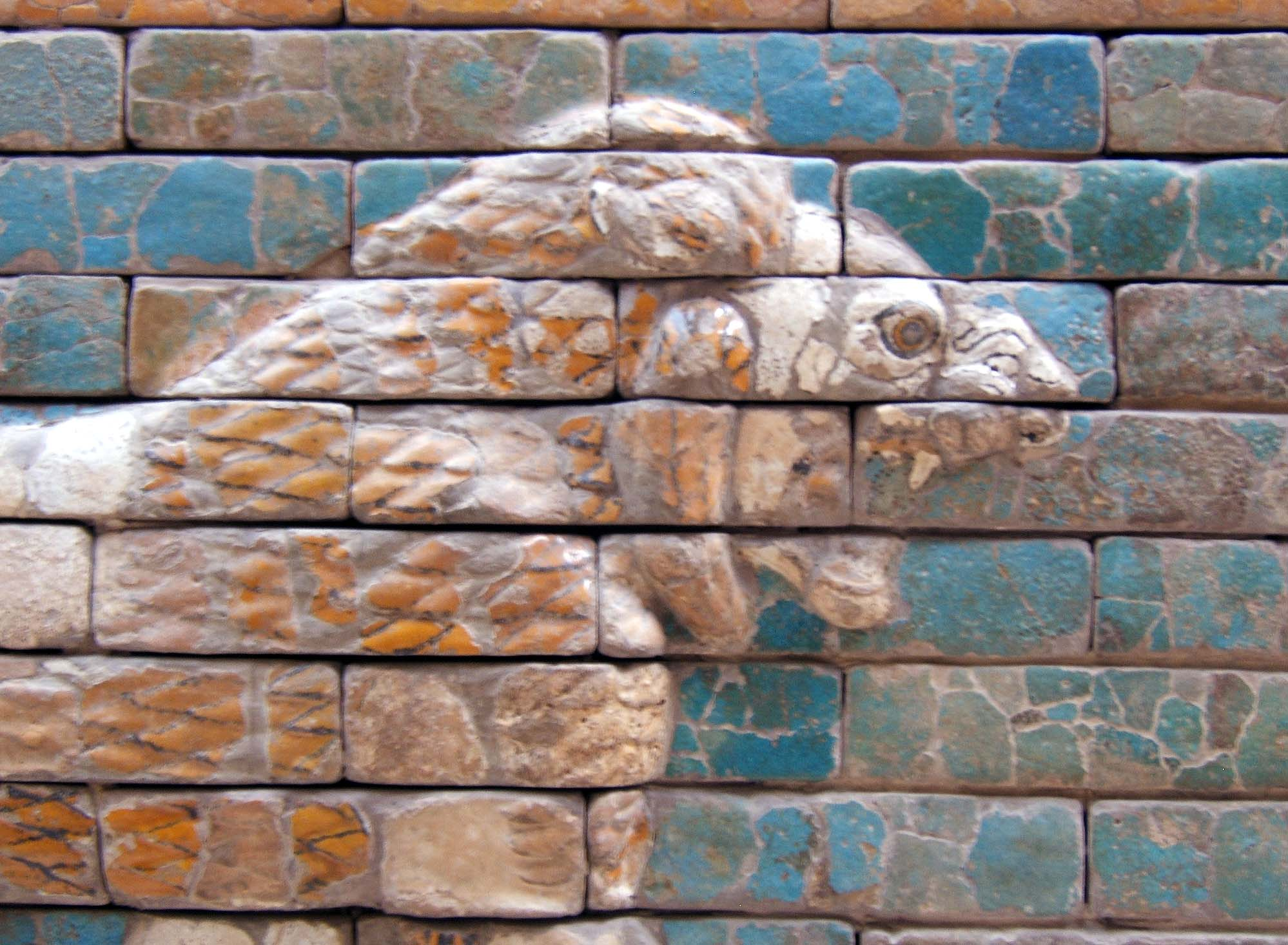 Lion frieze, Ishtar Gate, Pergamon Museum, Berlin